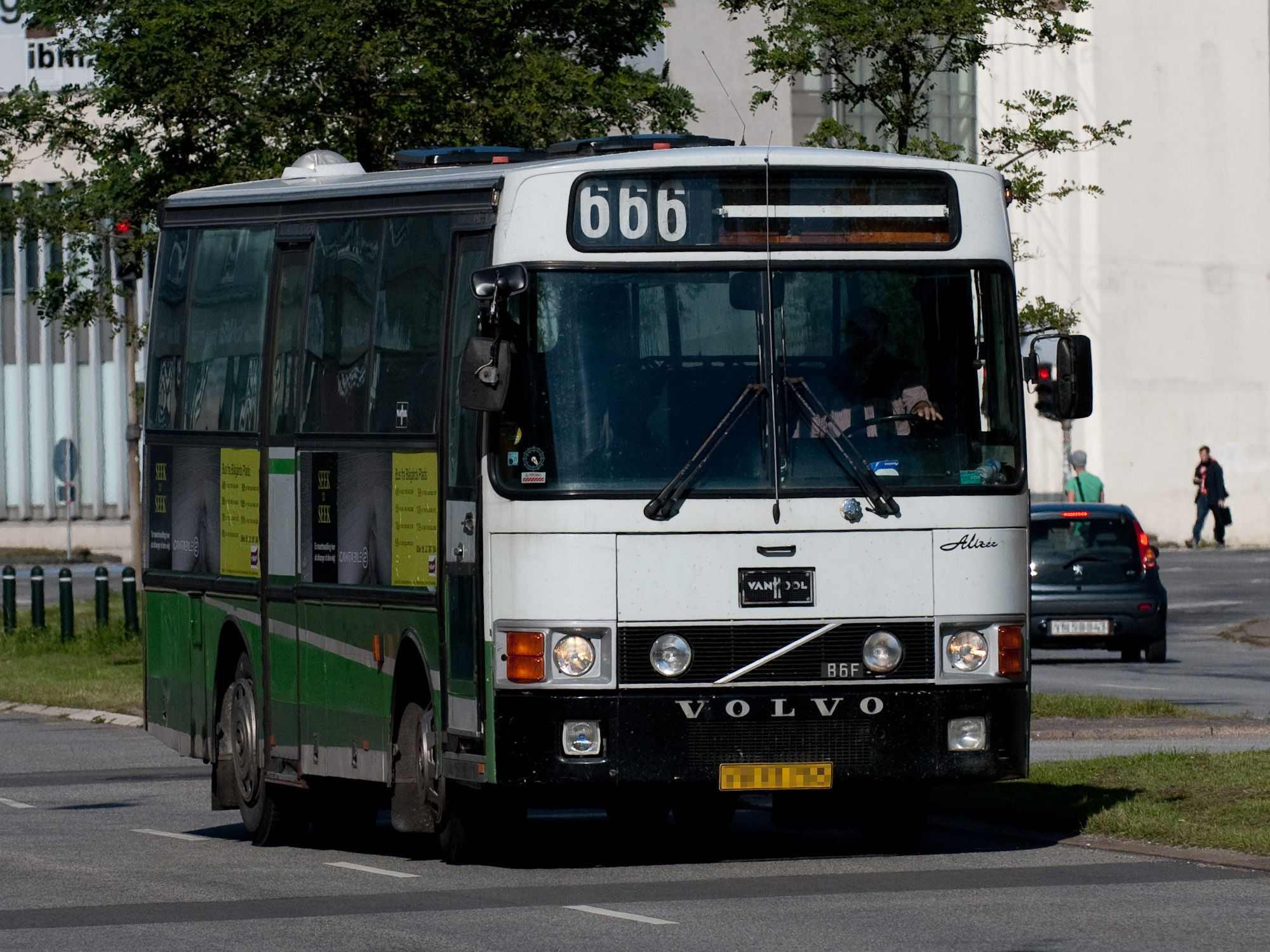 Volvo B6F (from 1982) in Denmark.